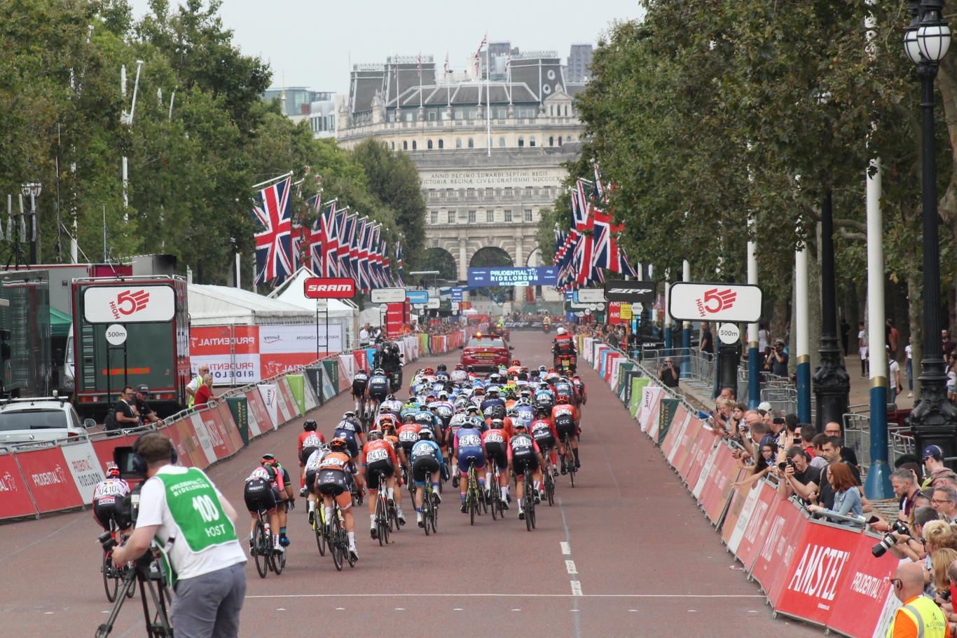 The 2019 RideLondon Classique started and finished under the blue banner on The Mall. This is the end of the fourth of twenty laps around the 3.4km course.